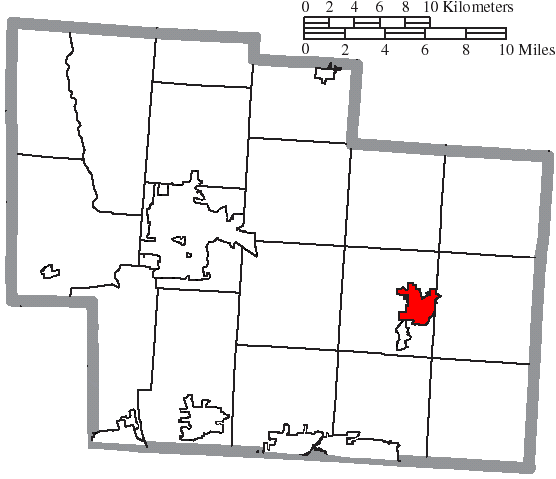 Map of the municipal and township boundaries of Delaware County, Ohio, United States, as of the 2000 census, with the location of the village of Sunbury highlighted. Township borders are shown only in unincorporated areas in order to differentiate incorporated and unincorporated areas more clearly.